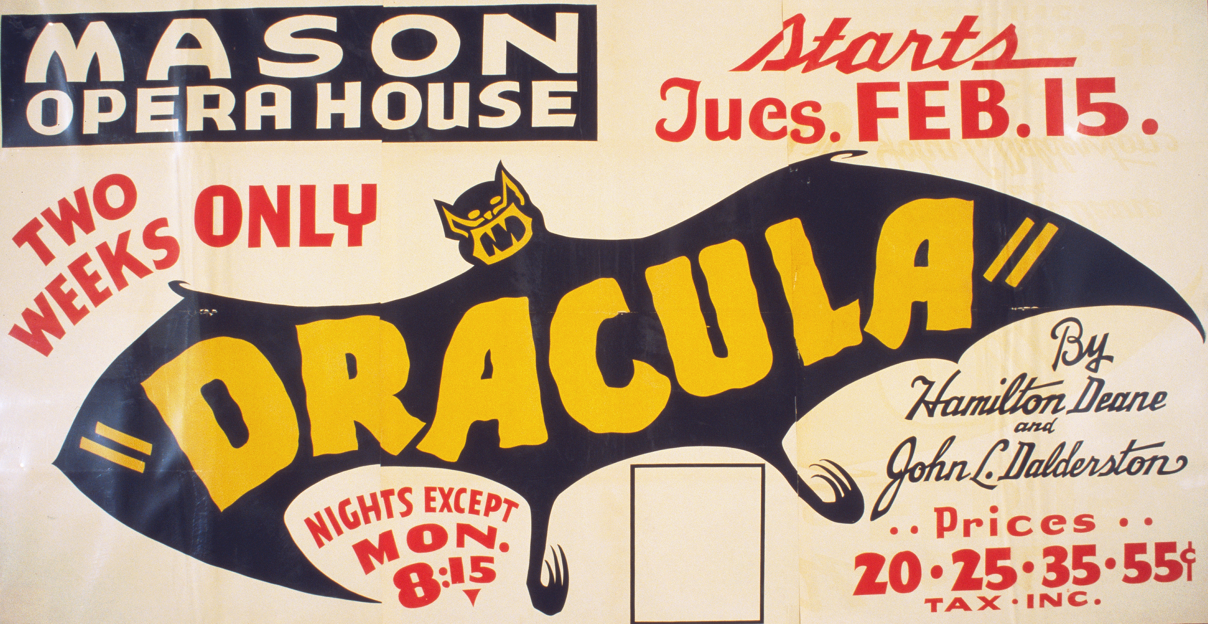 Color silkscreen poster for Federal Theatre Project presentation of "Dracula" by Hamilton Deane (ca. 1880-1958) and John L. Balderston (1889-1954), adapted from Bram Stoker's novel of the same name, at the Mason Opera House, Los Angeles, California.